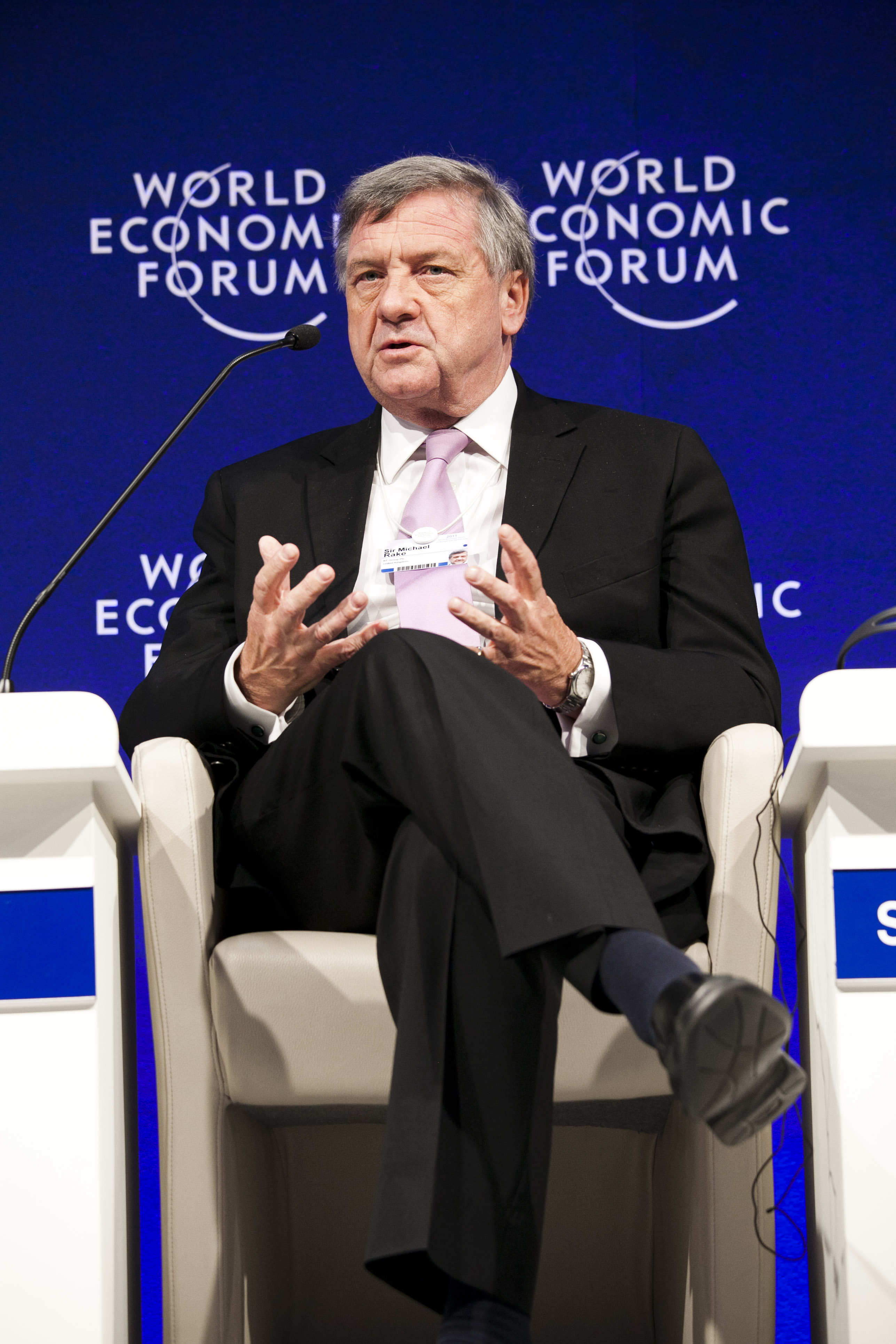 VIENNA/AUSTRIA, 8JUN11 - Sir Michael Rake, Chairman, BT Group Plc, United Kingdom at the World Economic Forum on Europe and Central Asia held in Vienna, Austria, June 8, 2011. Copyright World Economic Forum ( by Heinz Tesarek